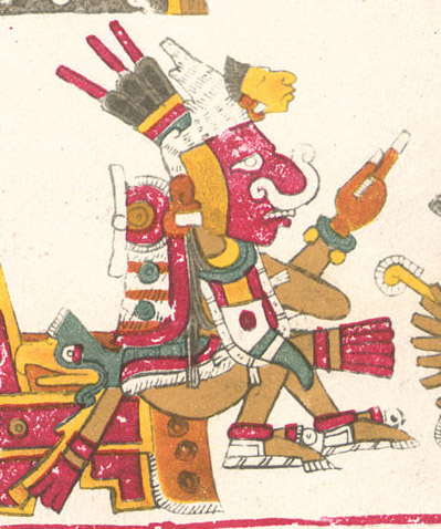 A drawing of Patecatl, one of the deities described in the Codex Borgia